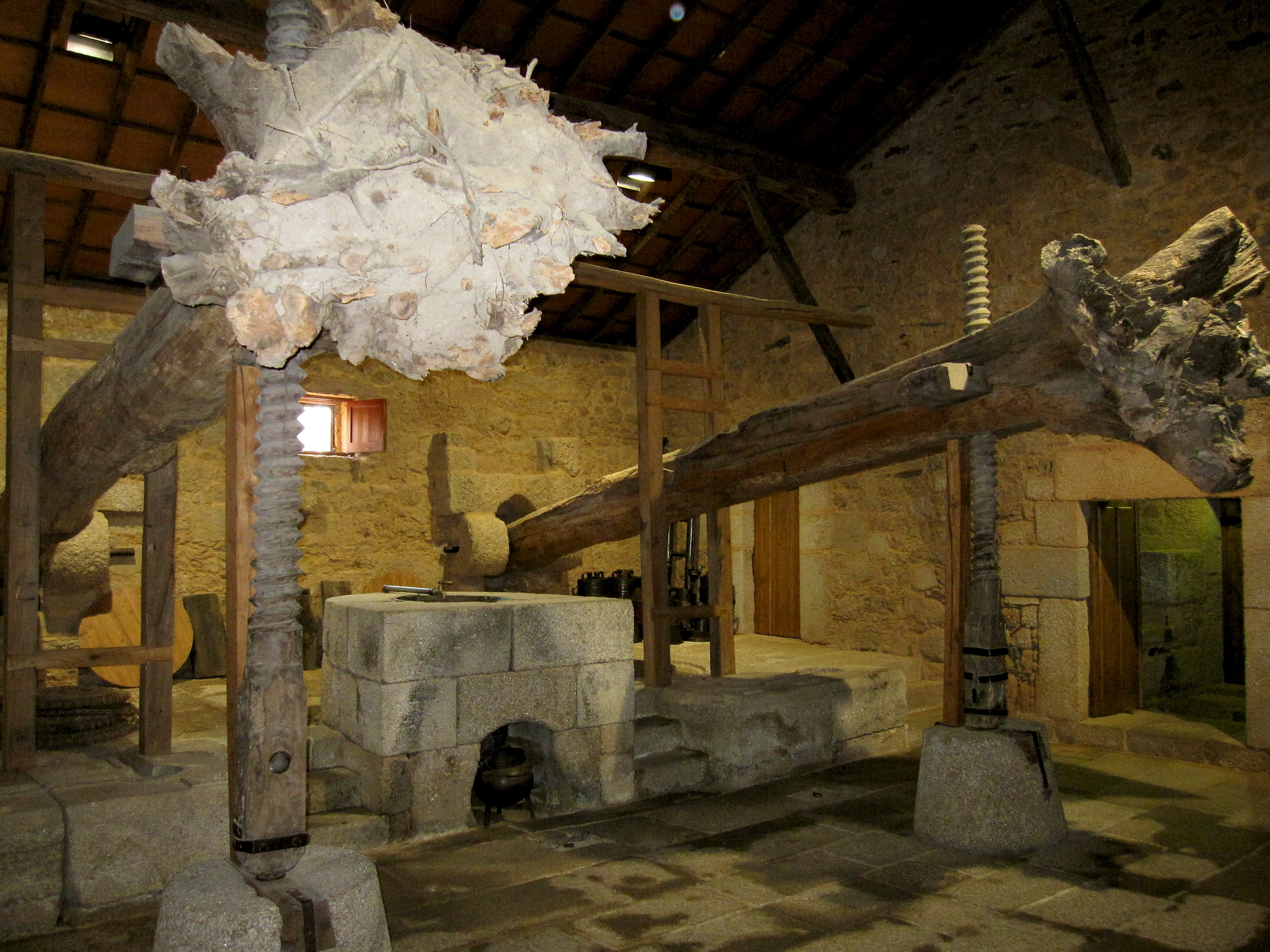 This file was uploaded for Wiki Loves Monuments in Portugal with the unique identifier 97011070.